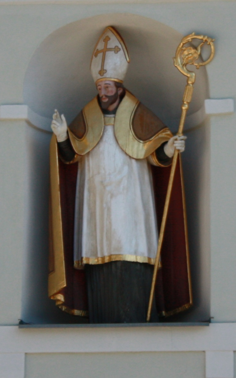 Parish church Saint Niklaus - Hl Nikolaus Locality:Straßburg Community:Straßburg